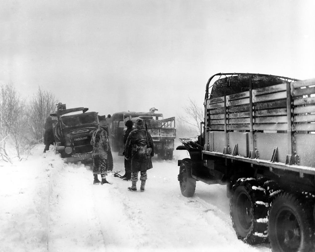 Snow and Ice make the going tough for U.S. Army vehicles on a road in Belgium. The snowstorm was responsible for the gasoline truck, at left, skidding off the road, and trucks going in the opposite direction are stalled as the result. 1st Infantry Division area, U.S. First Army. Sourbrodt, Belgium. 19 Jan 1945.